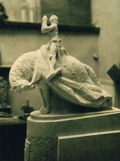 Statue of Joan of Arc, first price of national competition in 1947 for the city of Nice, France.